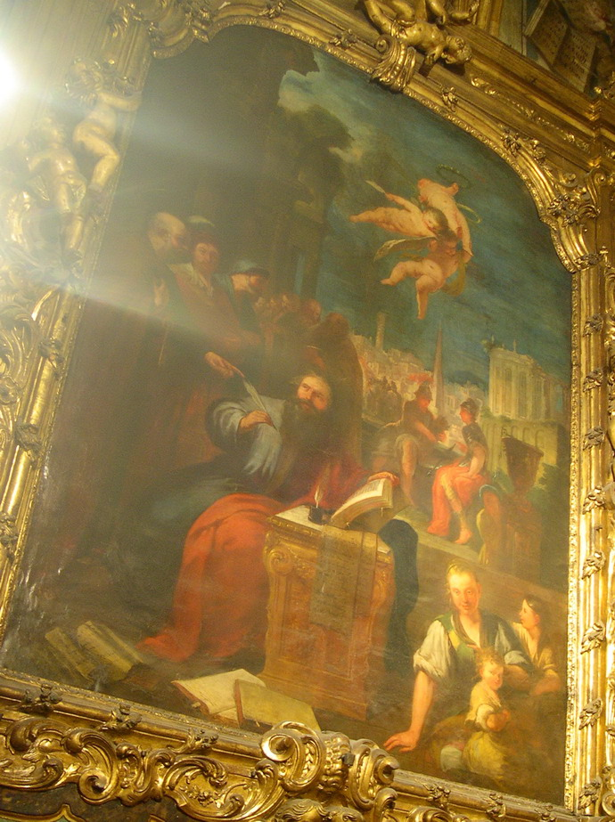 Saint Mark, by Francesc Tramulles, end of s.XVIII, Sant Marc chapel in cathedral of Barcelona